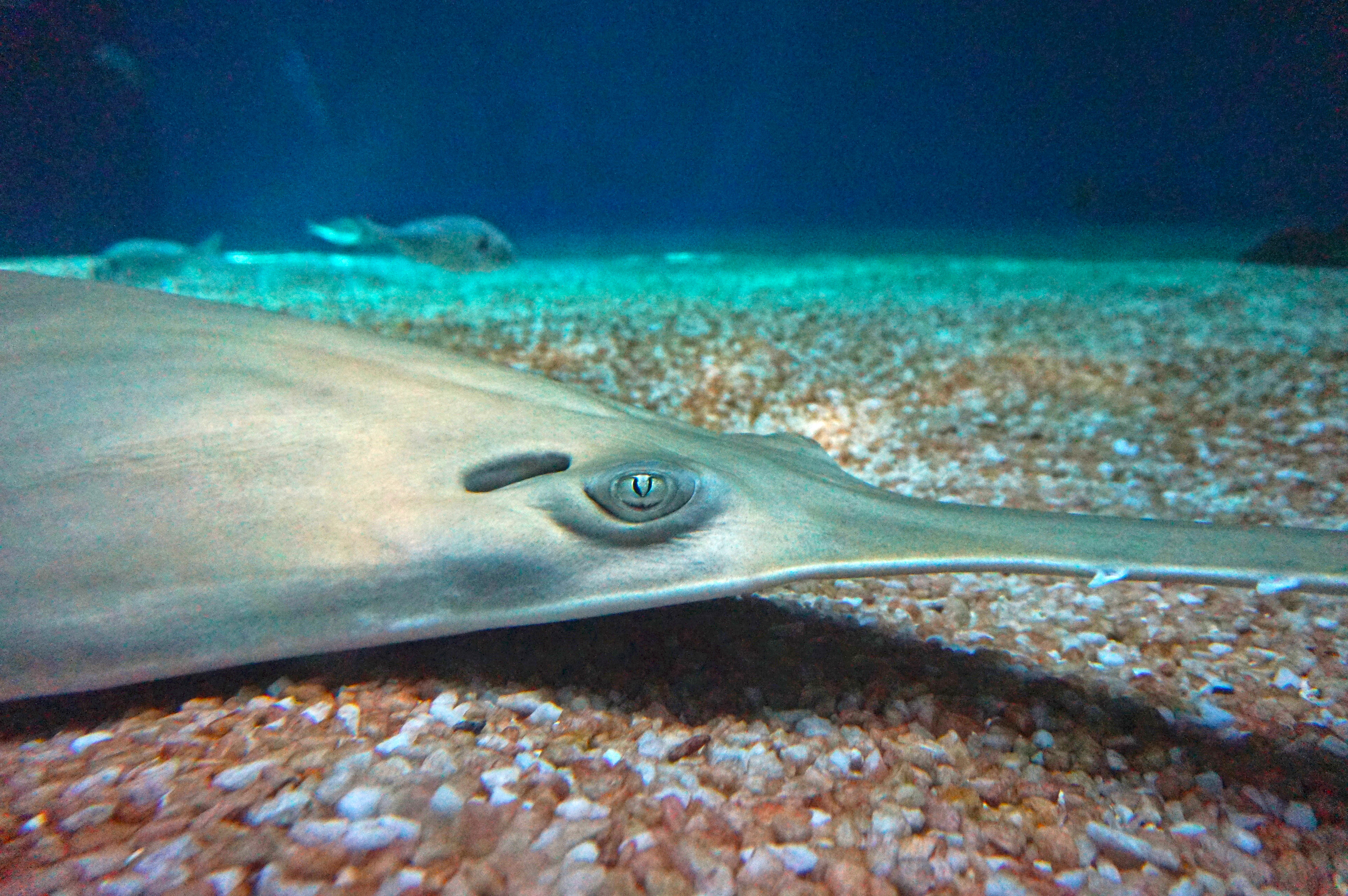 Aquarium of Genoa, Italy. This photograph was taken with a Sony Alpha a5000.